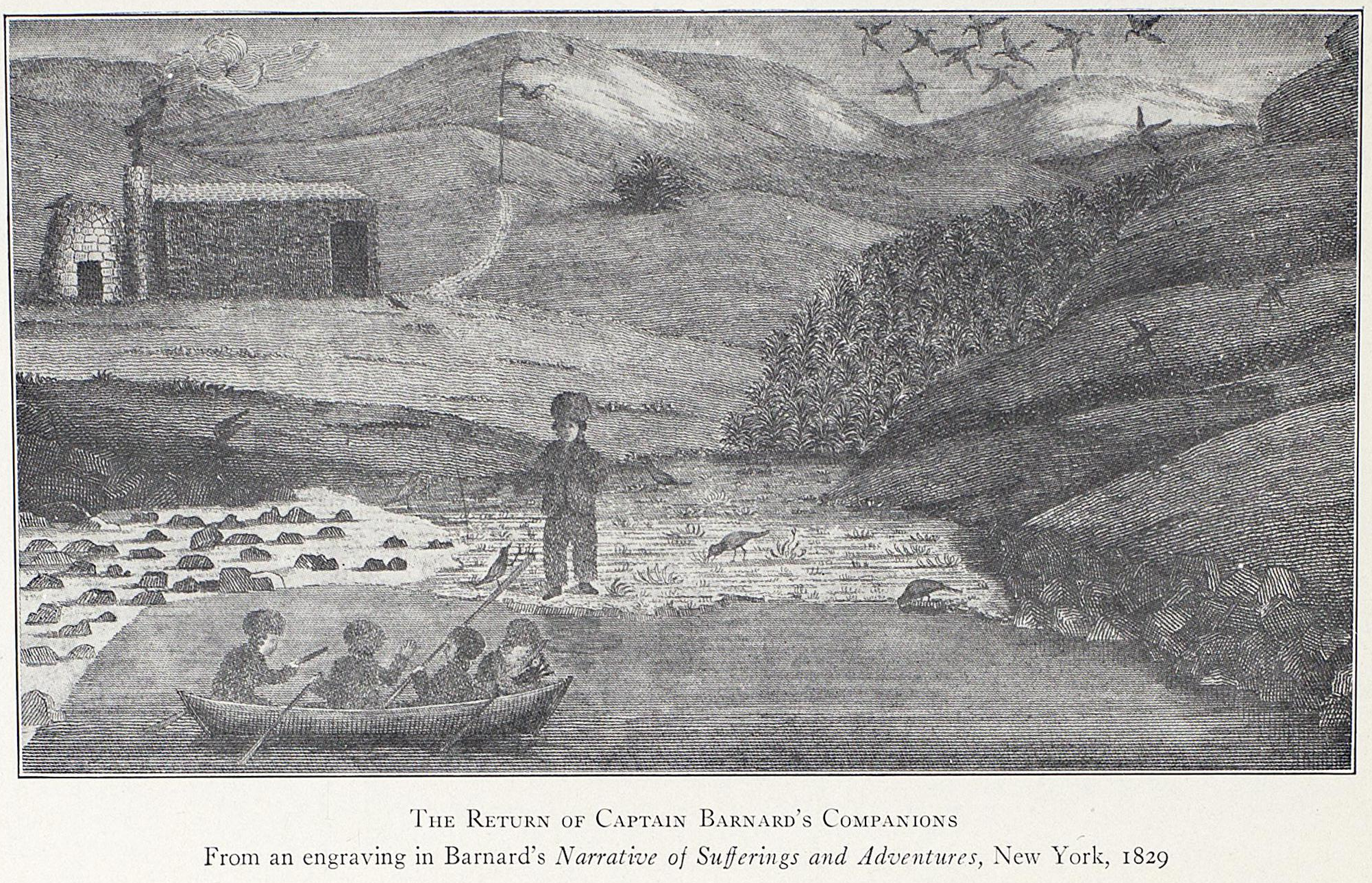 The main camp of Capt. Charles Barnard and his companions on New Island, Falkland Islands, 1813–1814